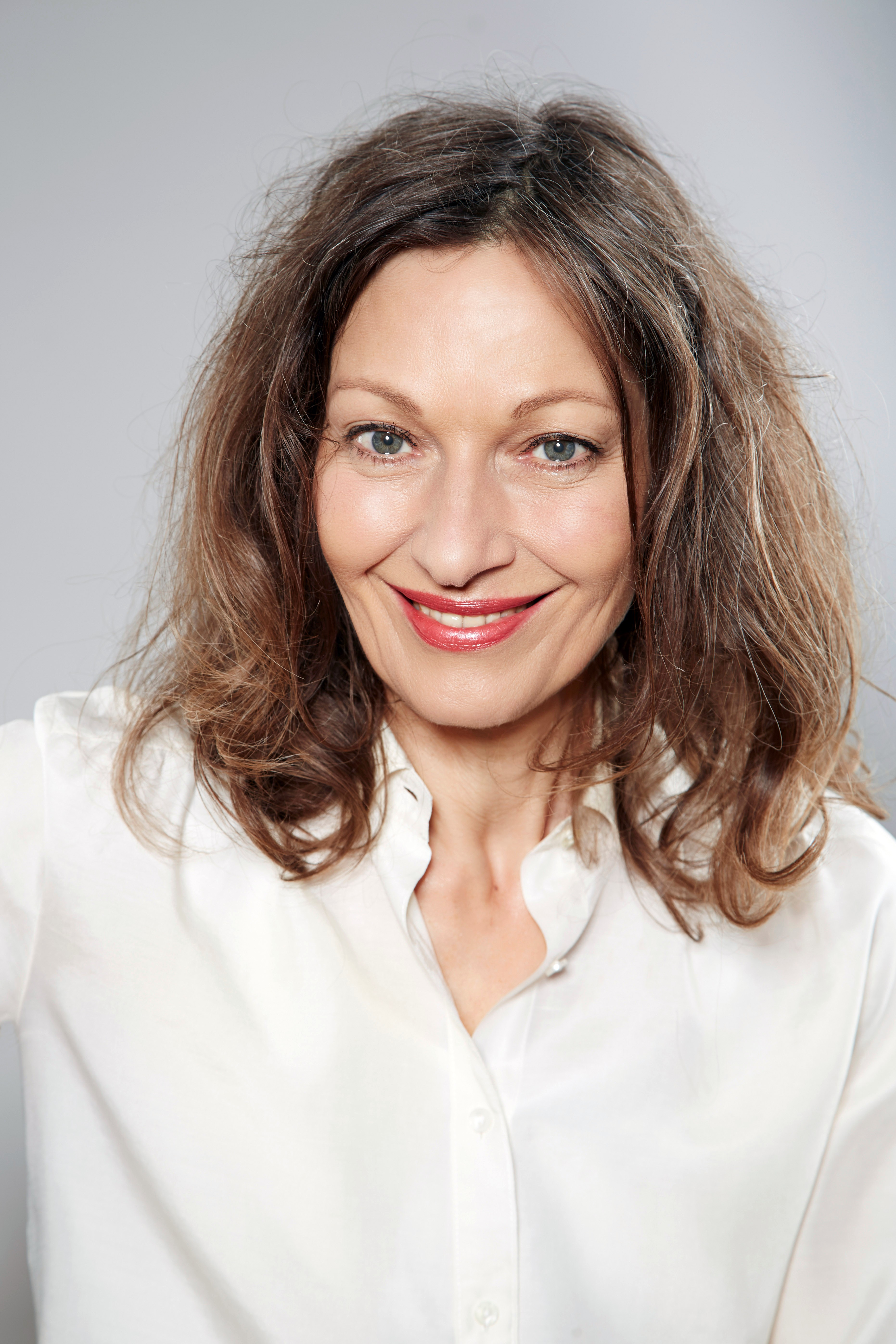 Carola Wegerle, actress